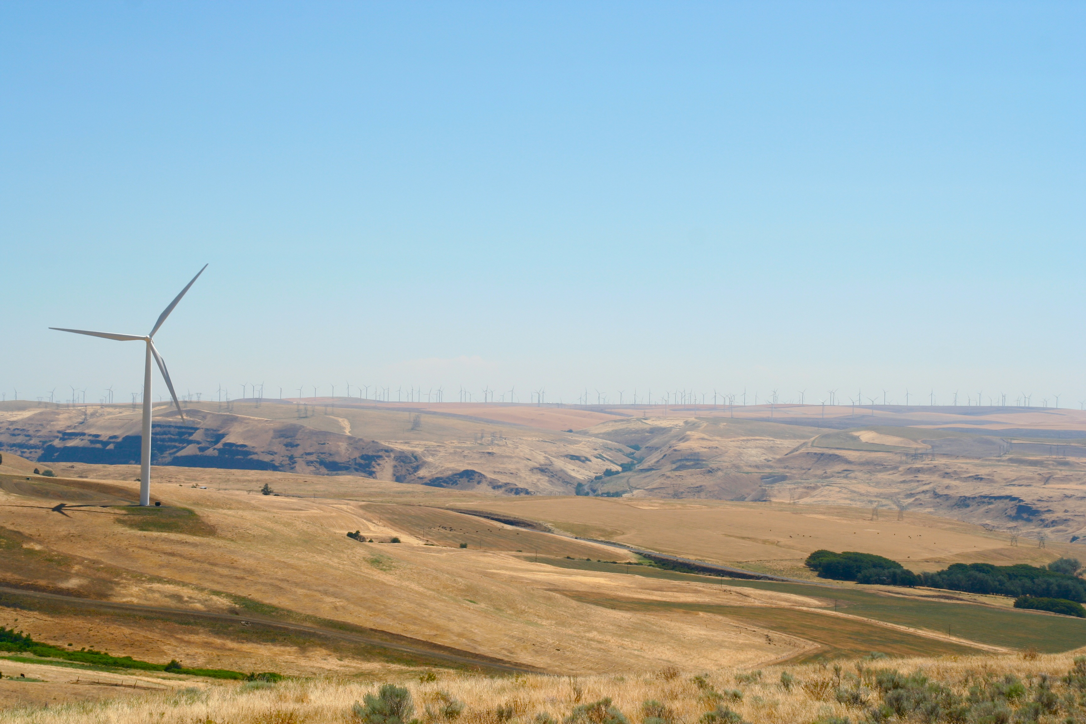 Windy Point/Windy Flats wind farm in southern Washington state.